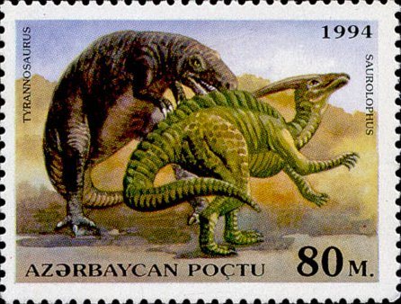 Stamp of Azerbaijan